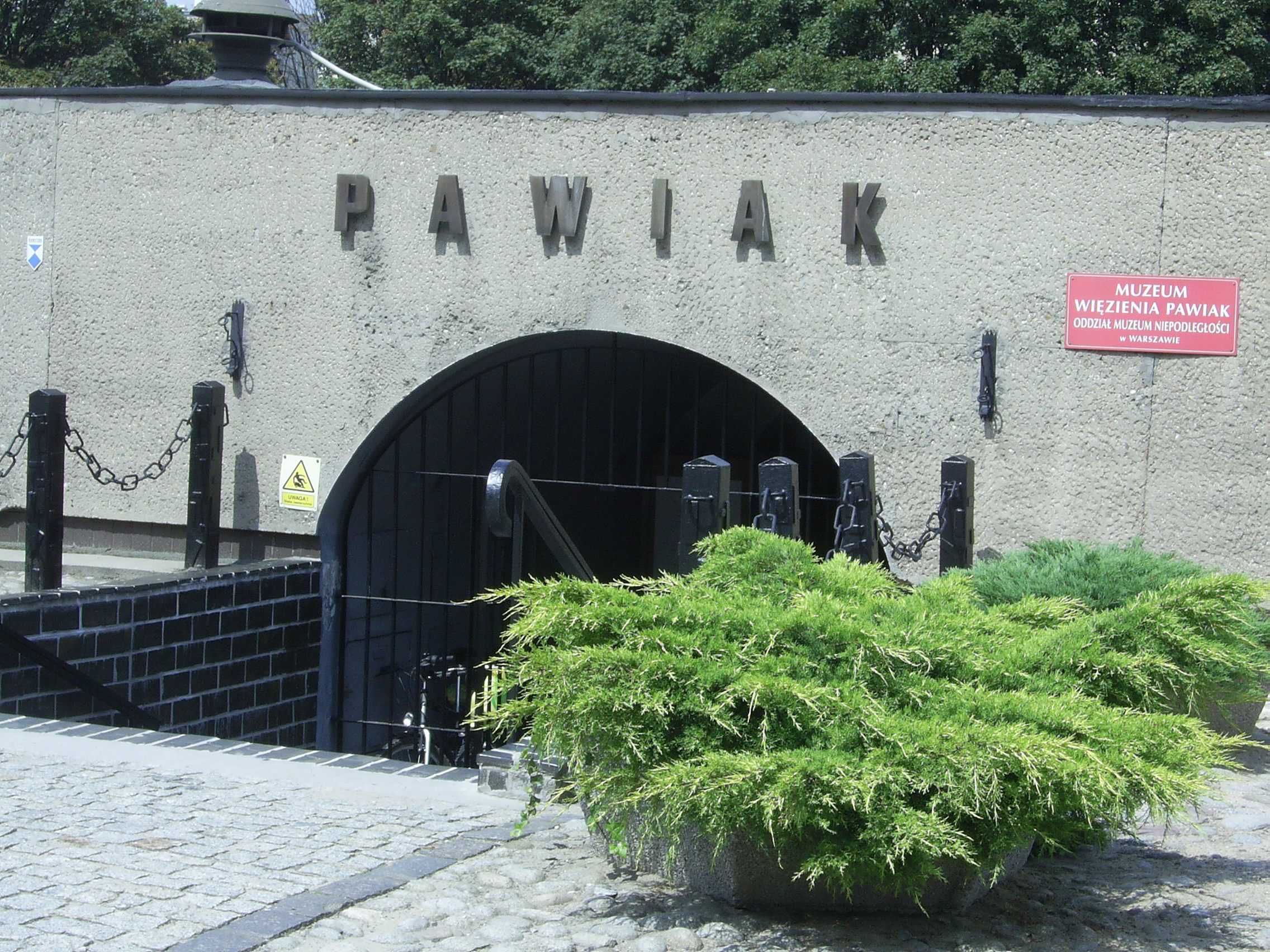 Pawiak